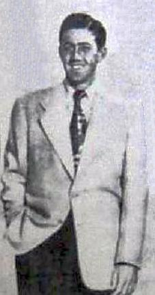 Ken Rosewall. From a picture of young Australian sports stars profiled. It was published in the "Simmo" book of Bob Simpson, printed in an Australian magazine in 1953